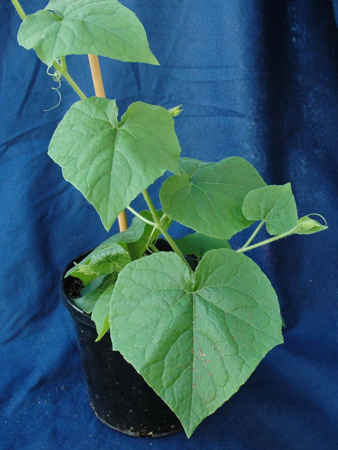 Sicyos angulatus L. - one-seed burr cucumber - United States